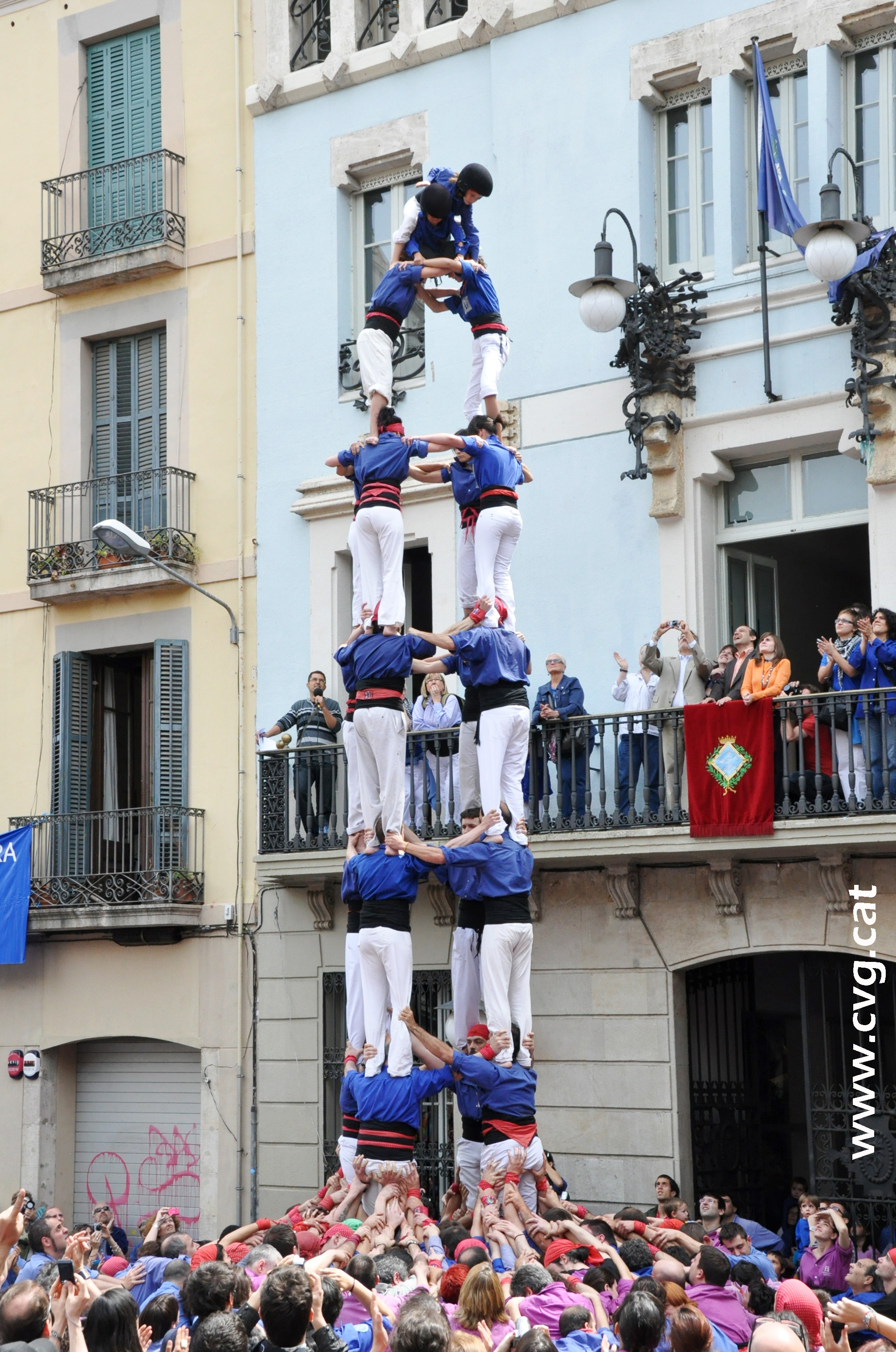 4 de 8 Castellers de la Vila de Gràcia